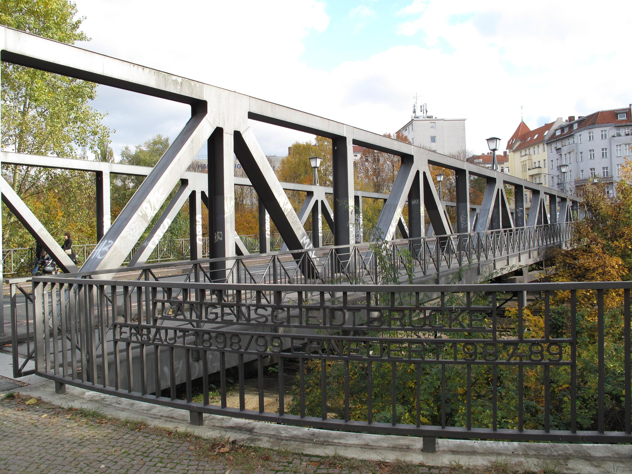 The Langenscheidtbrücke is a street-bridge of the Monumenten-/Langenscheidtstraße in Berlin-Schöneberg crossing the Wannseebahn. The steel-frame-bridge was built in 1898/99 and rebuilt largestly after the historical original in 1987/89.